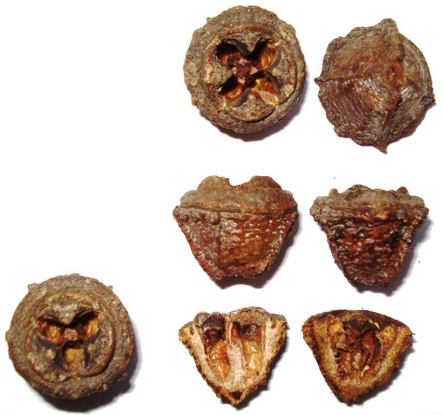 Eucalyptus globulus - Fruits